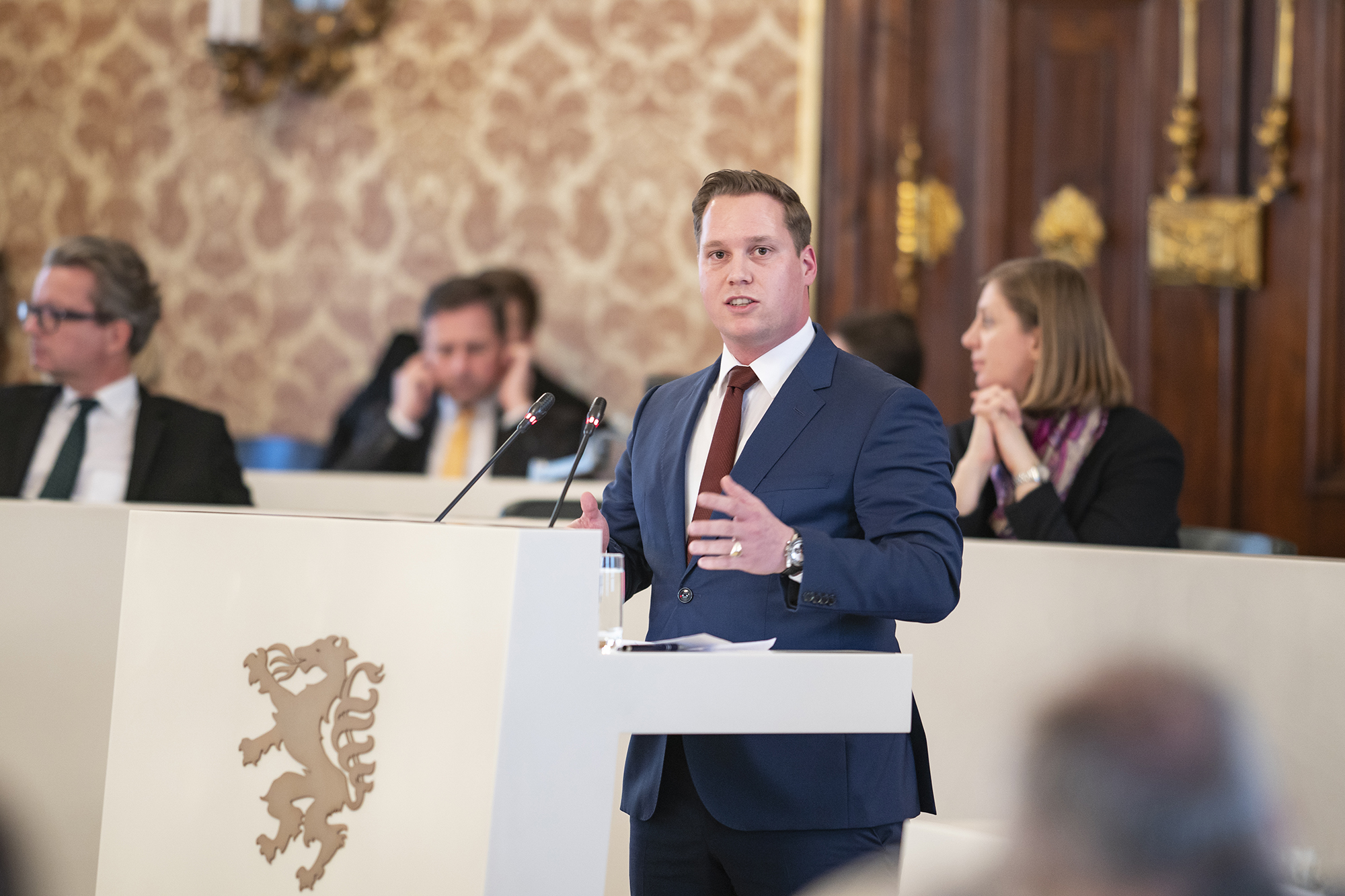 Marco Triller